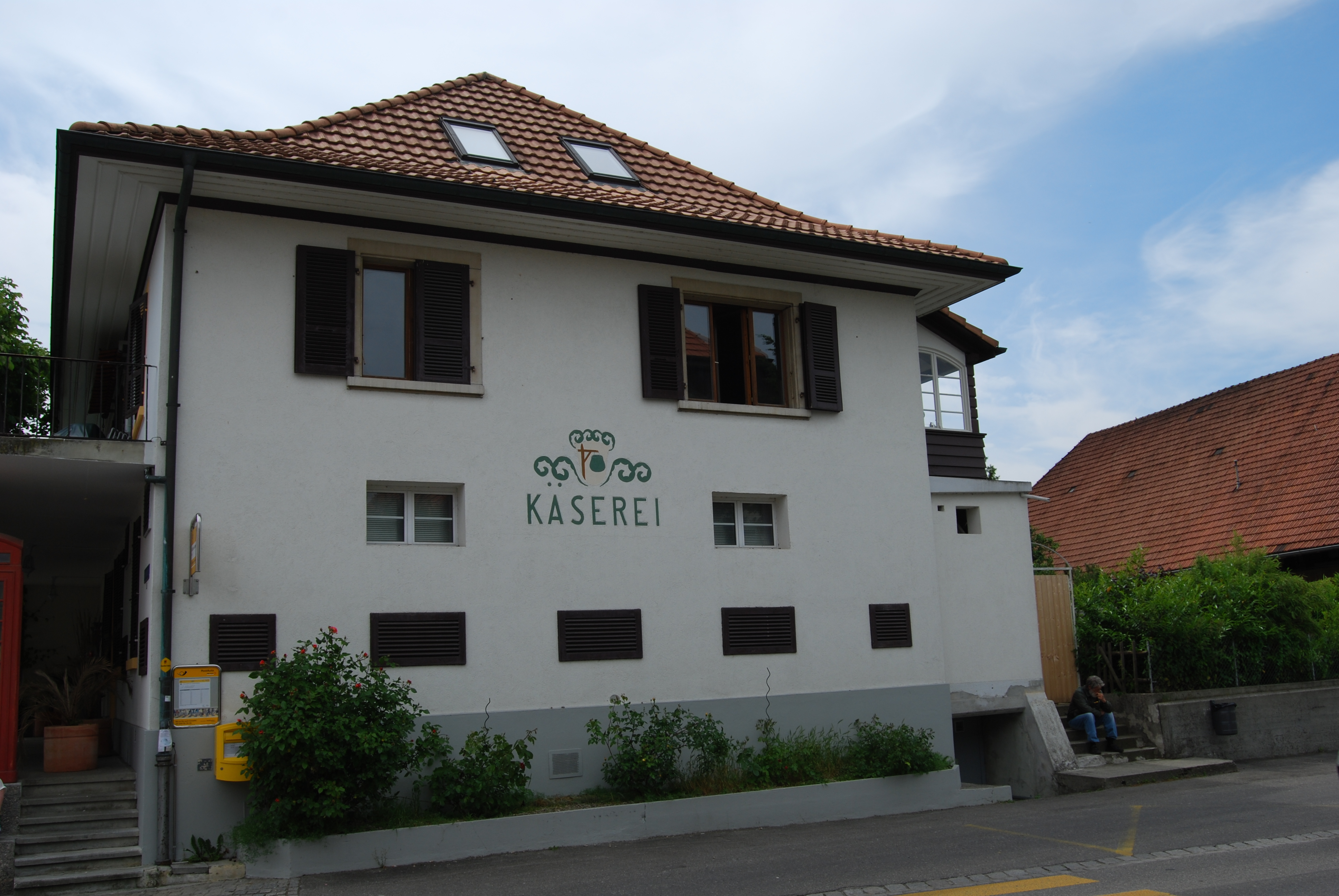 Bühl, canton of Bern, SwitzerlandEsperanto: Bühl, Kantono Berno, Svislando